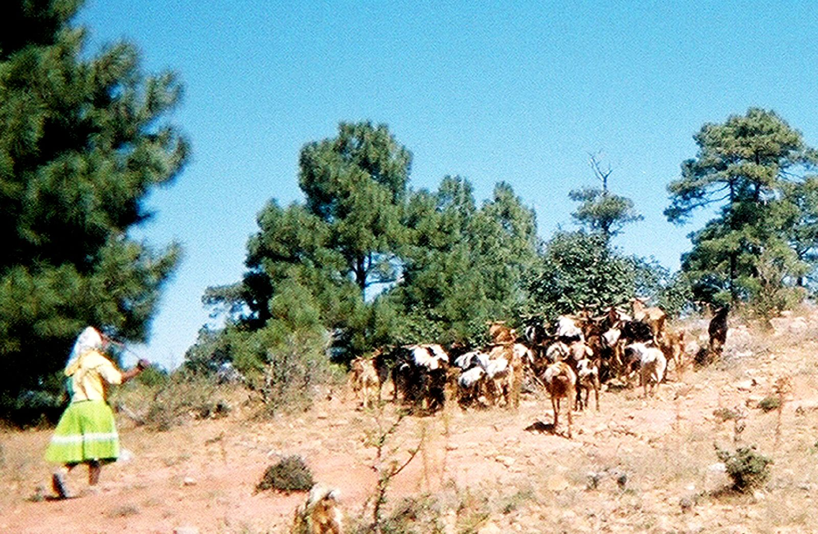 Tarahumara Woman Herding Goats